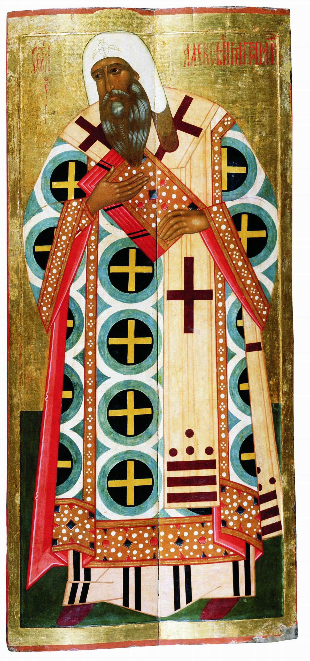 Metropolitan Alexius of Moscow, 1580s.